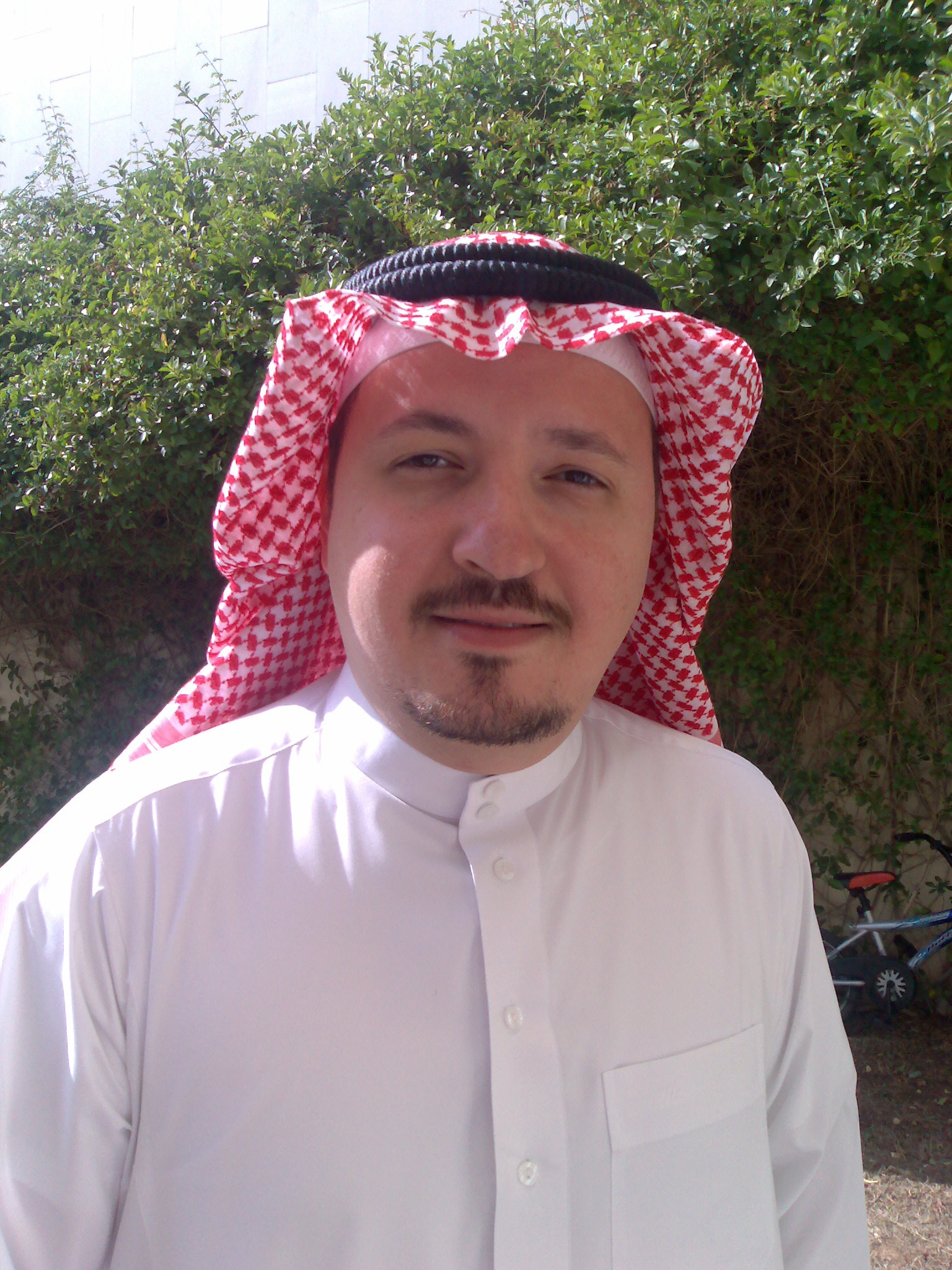 Monther Alkabbani